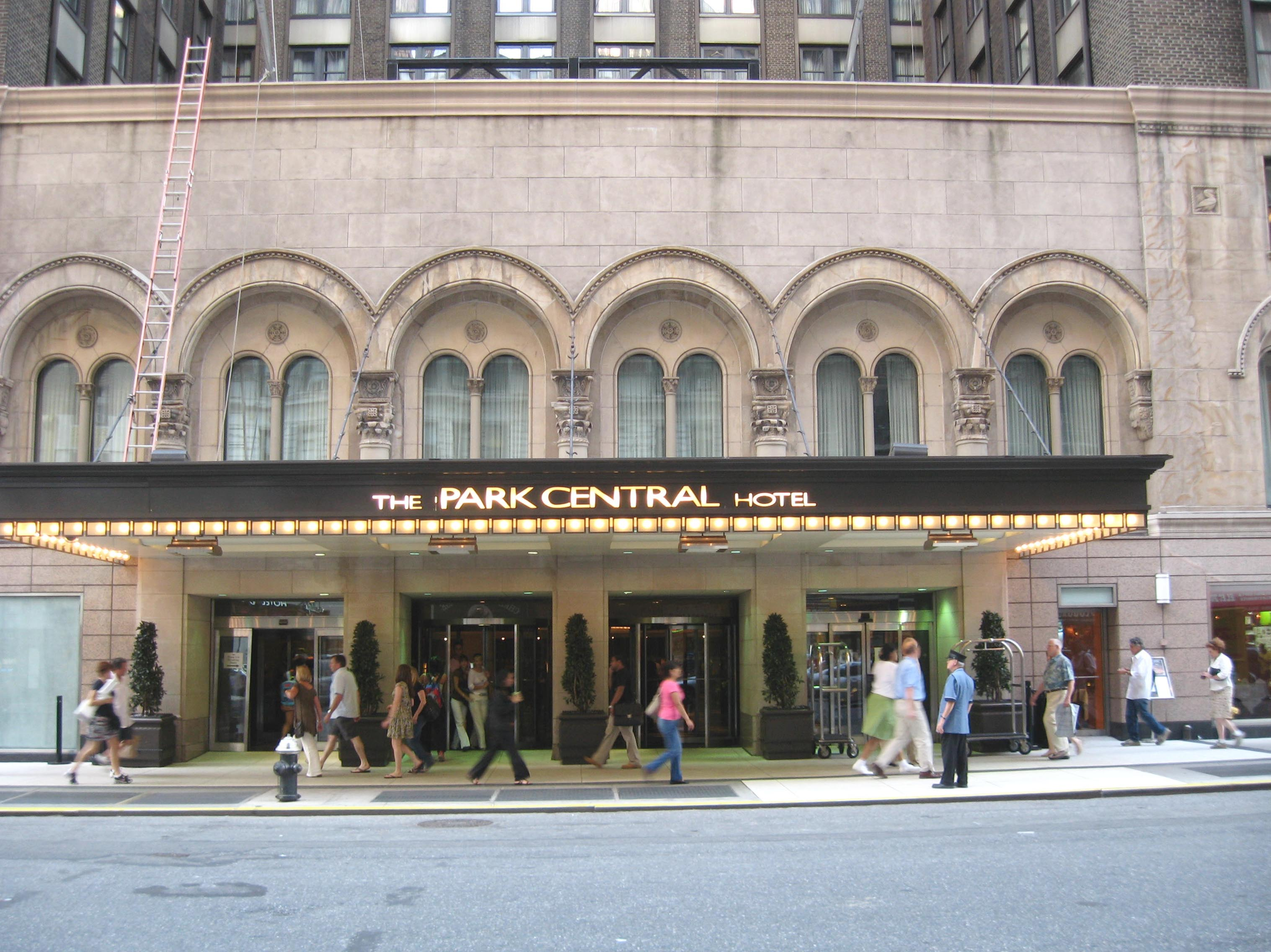 Looking west at Park Central Hotel on a sunny afternoon. See also Image:0255New York City The Park Central Hotel.JPG